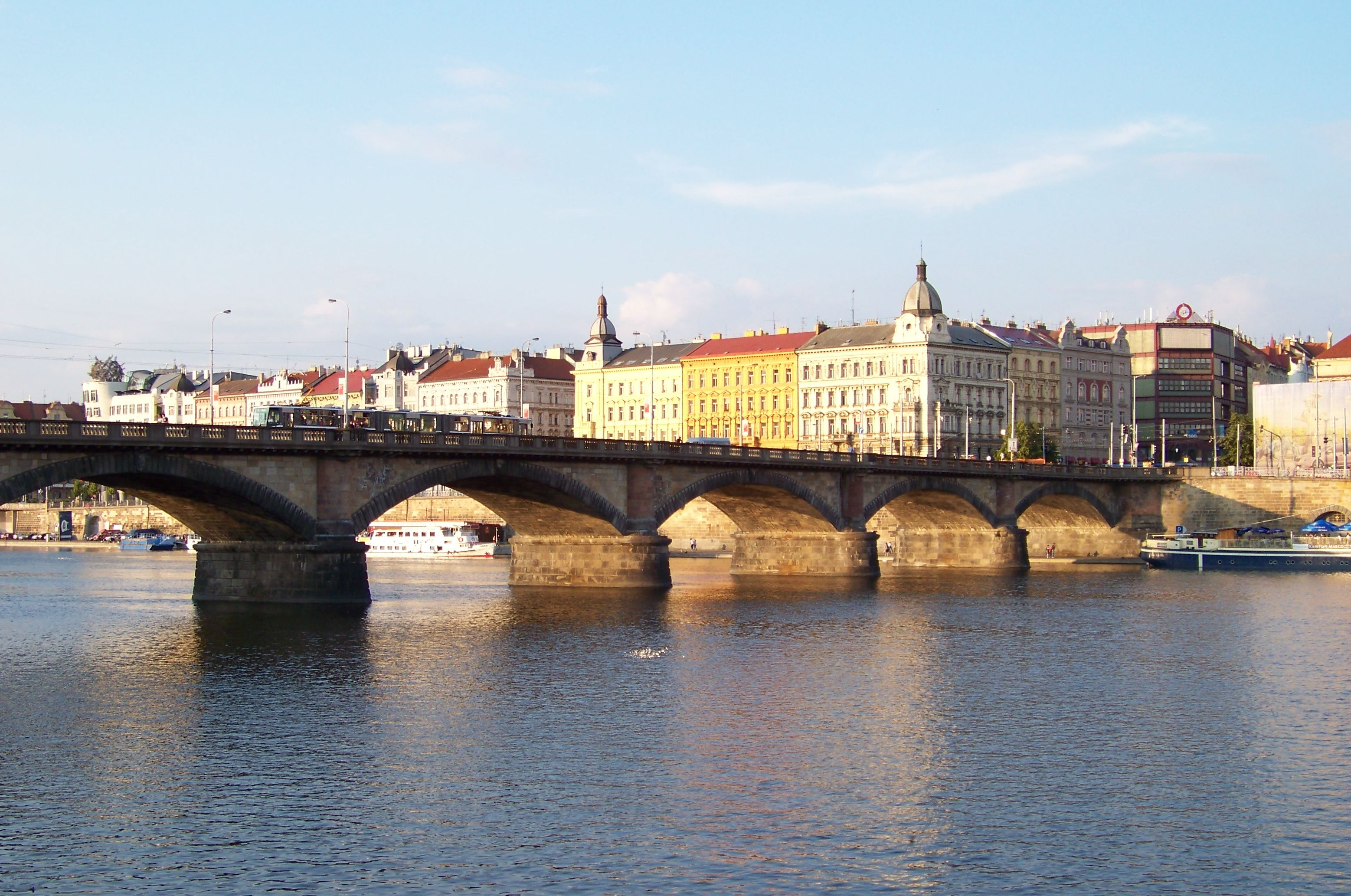 Prague-New Town, the Czech Republic.